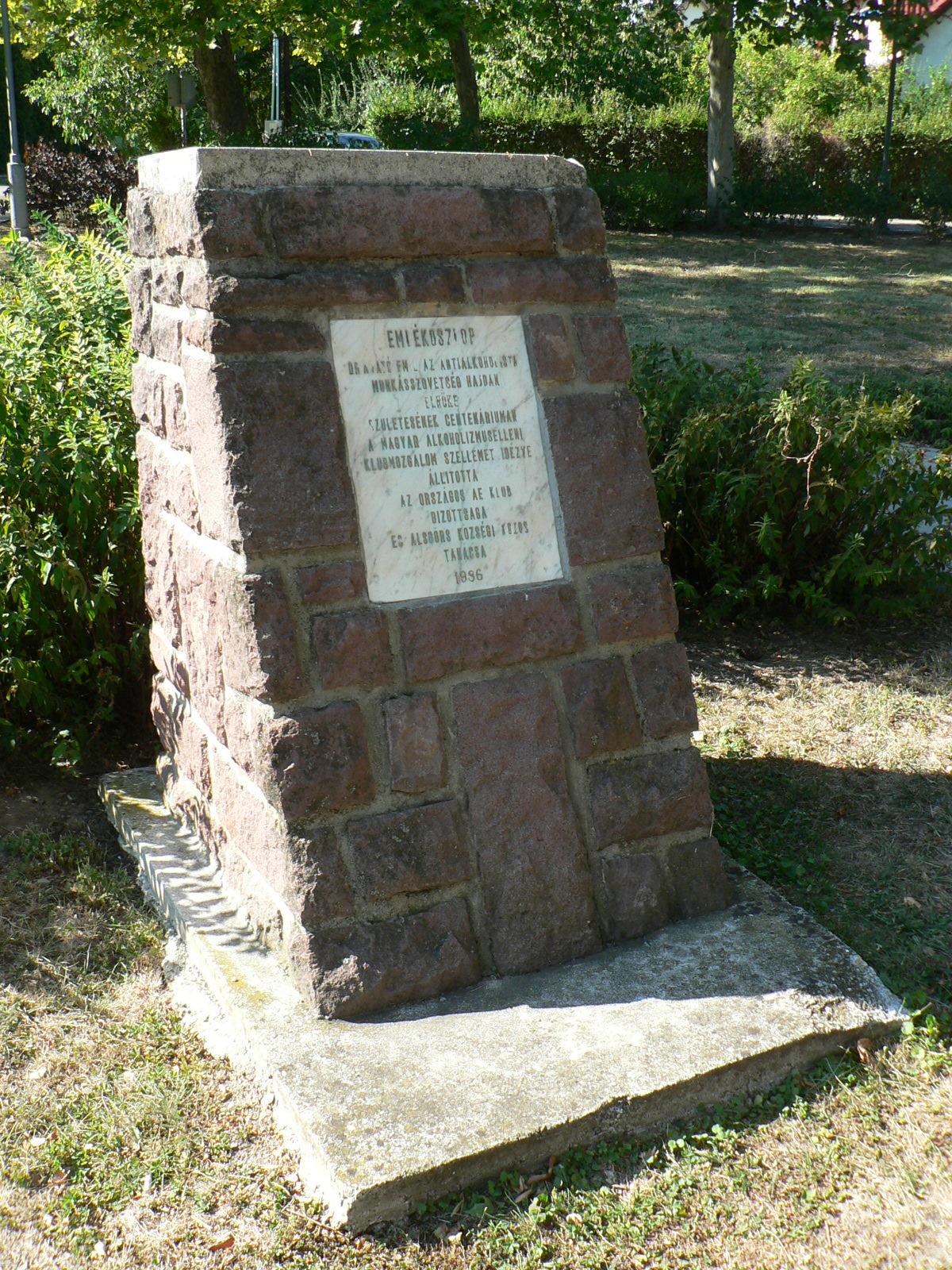 Antialkoholista emlékoszlop Alsóörsön